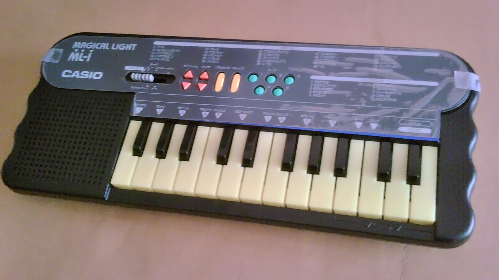 In 1994 casio released "MAGICAL LIGHT KEYBOARD ML-1"